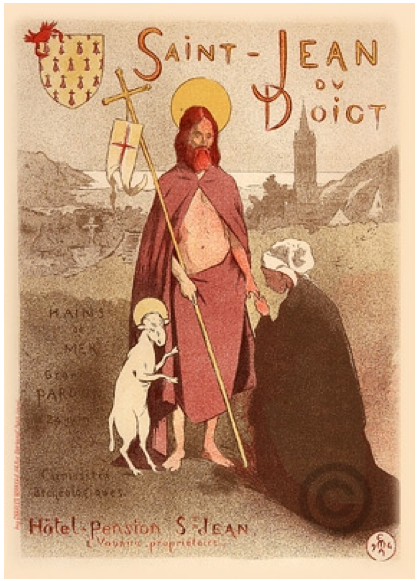 Zincography Poster of Saint-Jean du Doigt, Bains de mer... Hôtel-pension St-Jean, nouveaux propriétaires... designed by Moreau-Nélaton, printed by Charles Verneau in Paris.